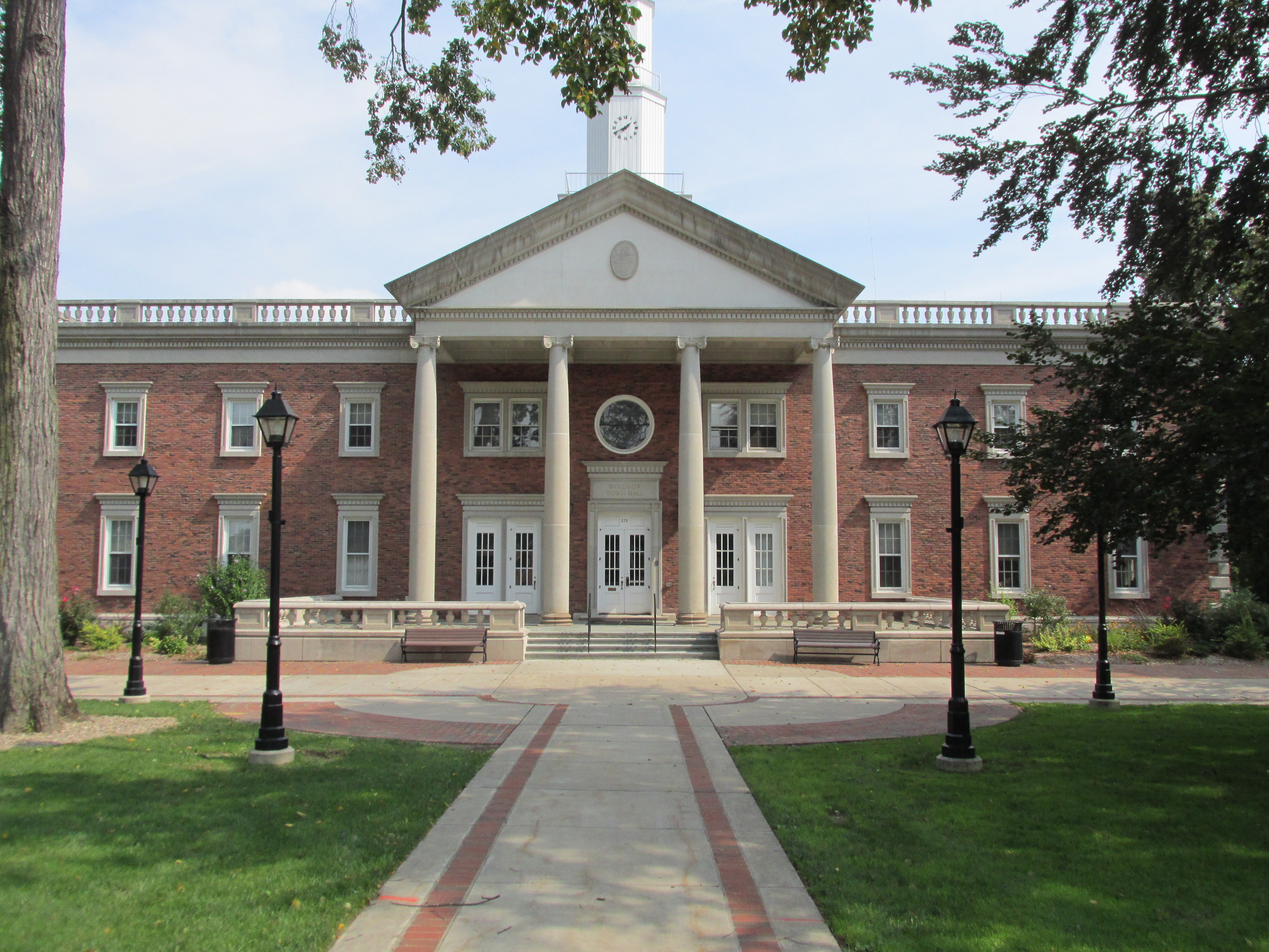 Windsor Town Hall in the Broad Street Green Historic District, Windsor Connecticut